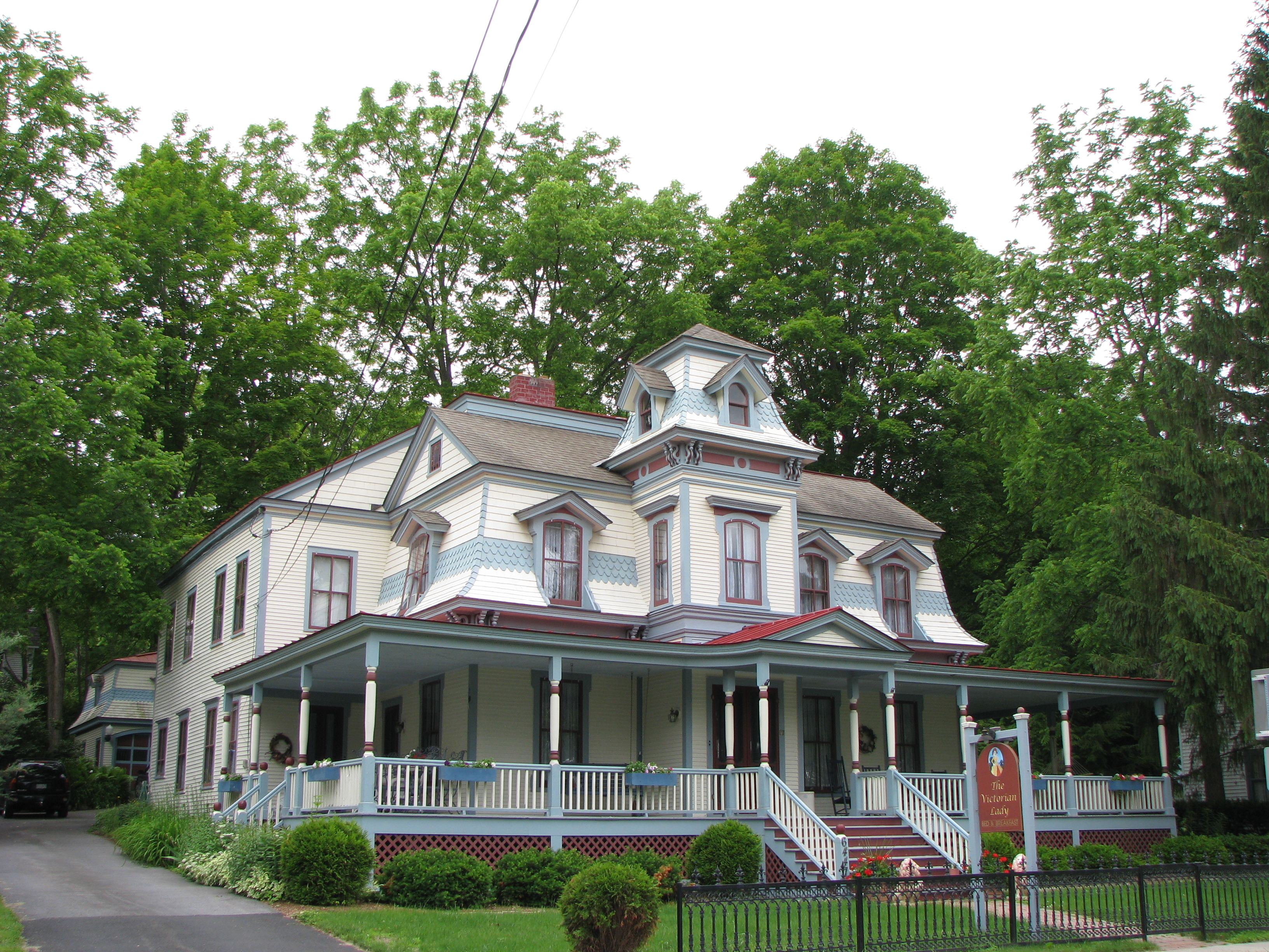 The Victorian Lady B&B, an historic house in Westport, New York. c. 1870.